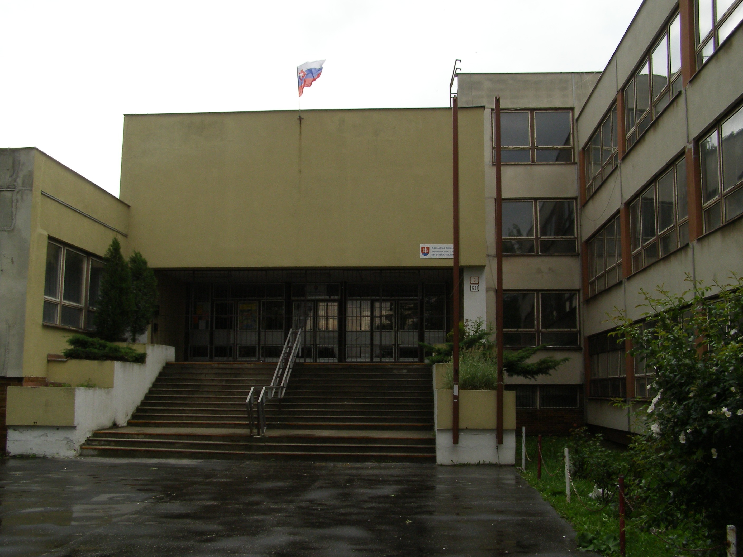 Elementary school Nobelovo námestie 6